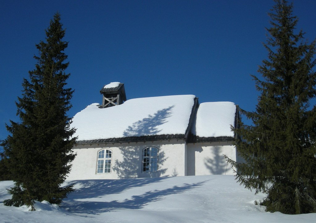 Skei church, Gausdal